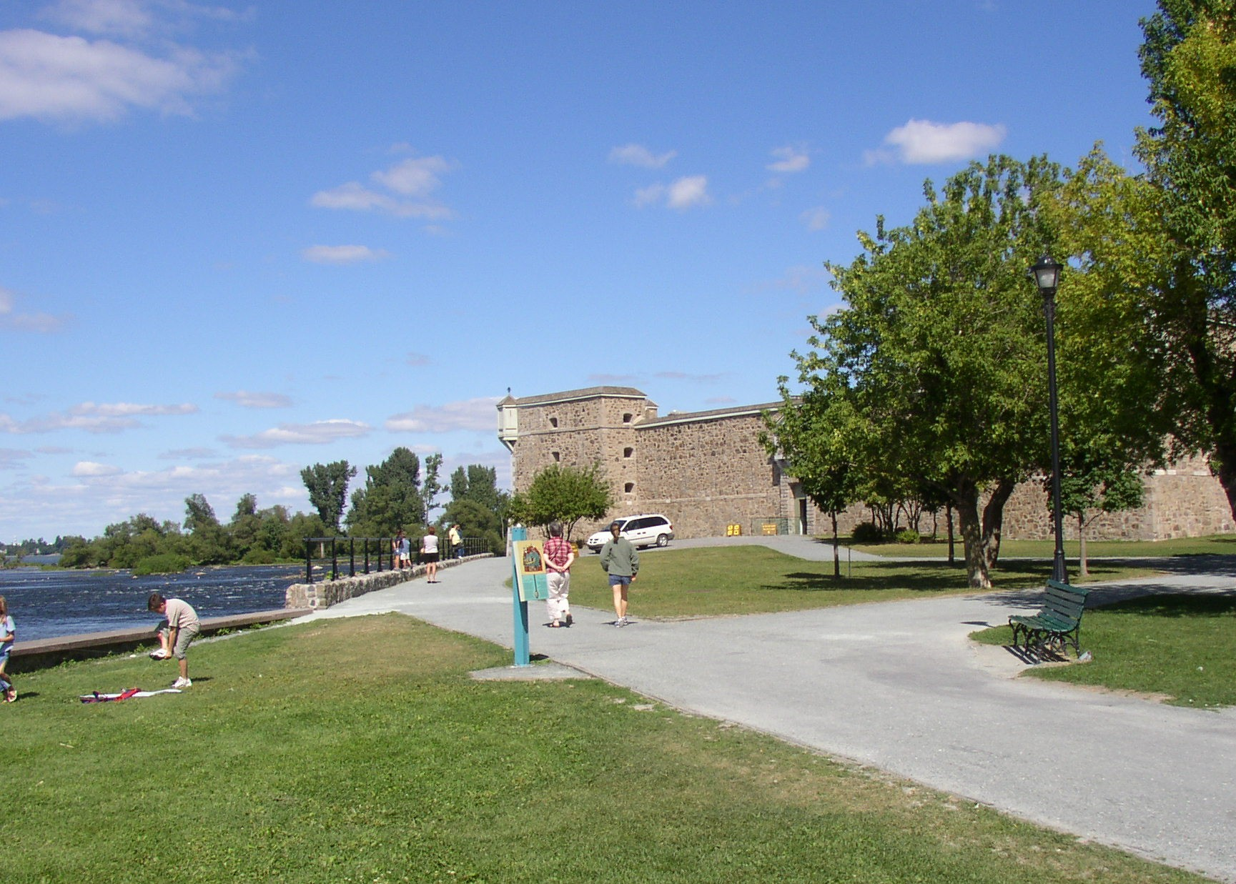 Photo of Fort Chambly on the Richelieu River in Quebec, Canada. Photo taken late in the summer of 2002. Photo taken by uploader. Own work. All rights released. Williamborg 01:39, 22 July 2006 (UTC)